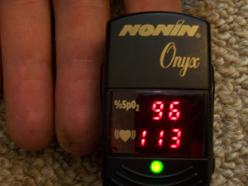 Pulse oximetry (or pulse oxymetry in the UK) is a non-invasive method allowing the monitoring of the oxygenation of a patient's hemoglobin.